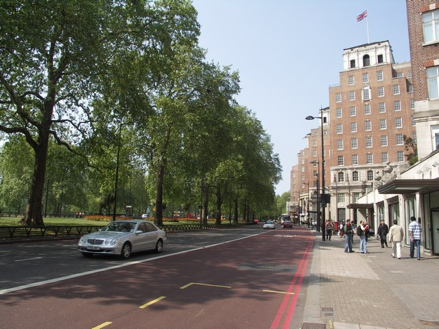 Park Lane, Mayfair This picture shows the southbound carriageway. Park Lane has Hyde Park on the west side, and a number of expensive hotels, such as Grosvenor House and The Dorchester on the eastern side.